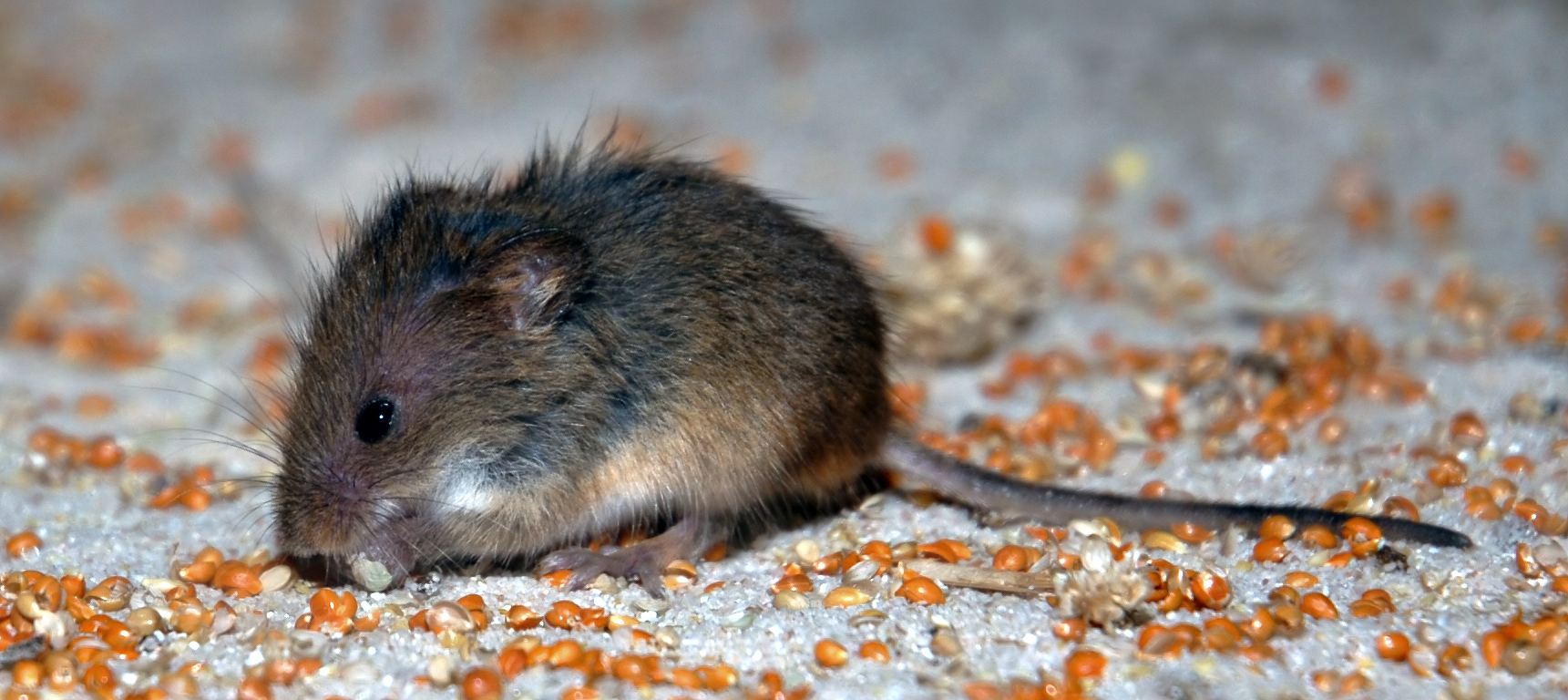 This image shows a Harvest Mouse (Micromys minutus)